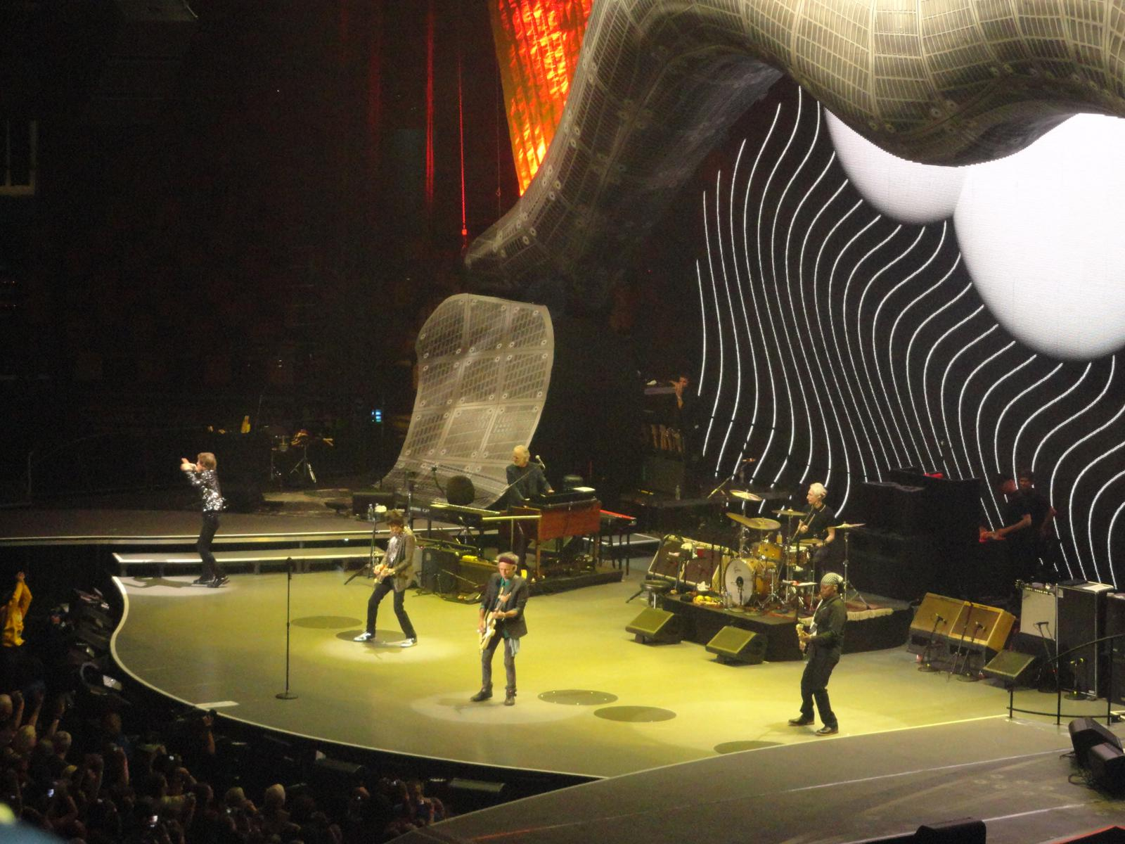 The Rolling Stones "50 And Counting Tour"-Boston, Mass. June 12, 2013; entire band, including Darryl Jones and Chuck Leavell